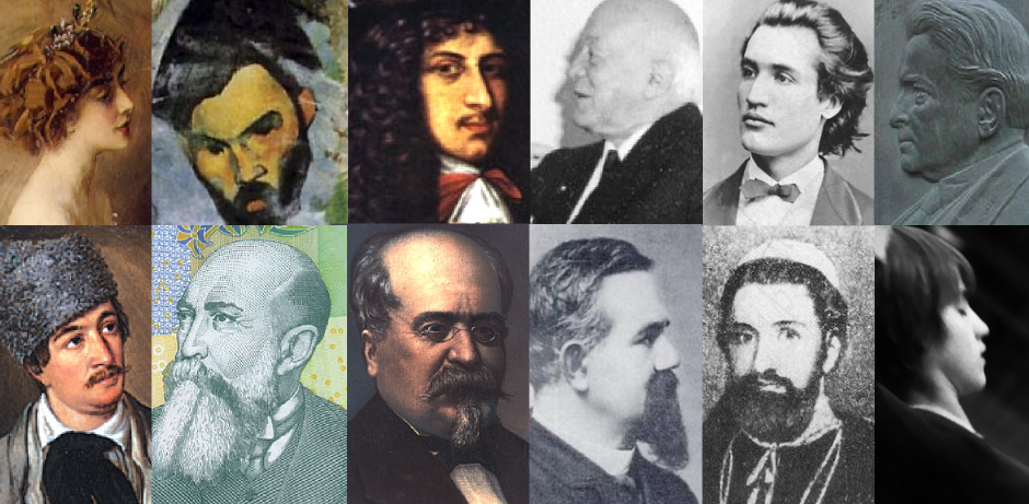 12 portraits of known Romanians. Top row, left to right: Marthe Bibesco, writer (File:Marthe Bibesco Boldini.jpg) Constantin Brâncuşi, sculptor (File:Modigliani - Brancusi's Portrait (The Cellist, verso).PNG) Dimitrie Cantemir, philosophe and historian (File:Dimitrie Cantemir 02.jpg) Henri Coandă, engineer and inventor (File:IICCR G240 Ceausescu Coanda crop.jpg Mihai Eminescu, writer (File:Eminescu.jpg) George Enescu, classical composer and violinist (File:George Enescu Vienna Frankenberggasse 6 = Apfelgasse 6.jpg) Bottom row, left to right: Avram Iancu, political activist and military leader (File:Avram Iancu.jpg) Nicolae Iorga, historian, writer and political figure (File:ROL 10000 2000 obverse.jpg) Mihail Kogălniceanu, historian, writer and political figure (File:Mihail Kogalniceanu.jpg) Titu Maiorescu, philosopher, critic and political figure (File:Maiorescu - Oldson, A Providential Antisemitism.PNG) Inocenţiu Micu-Klein, philosophe, cleric and activist (File:Ioan Inocentiu Micu Klein.jpg) Nadia Comăneci, gymnast (File:Nadia Comaneci 1977.jpg)